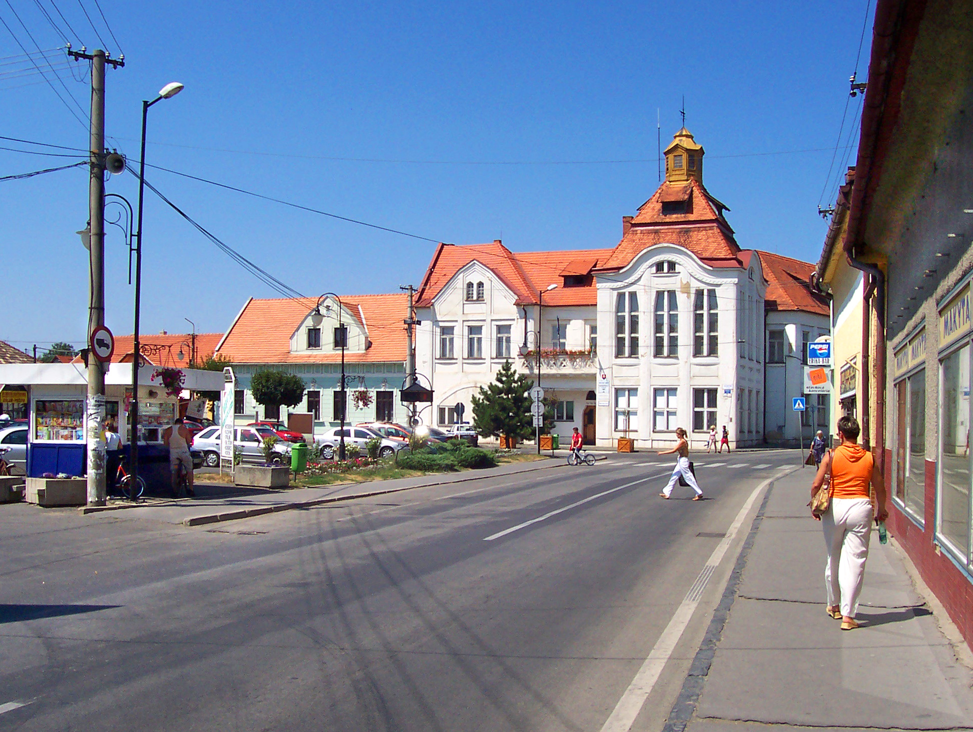 Main square at Fiľakovo. Novohrad Region, Slovakia